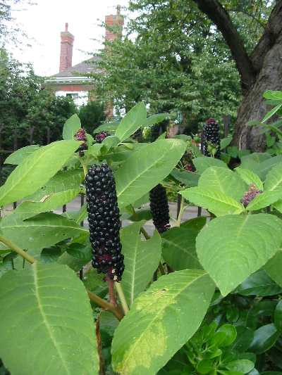 Pokeweed berries in late summer (a garden cultivar) Source: Photograph taken by Peter M. Chapman 2004 Copyright: Released under the GFDL by the photographer (Peter Chapman).